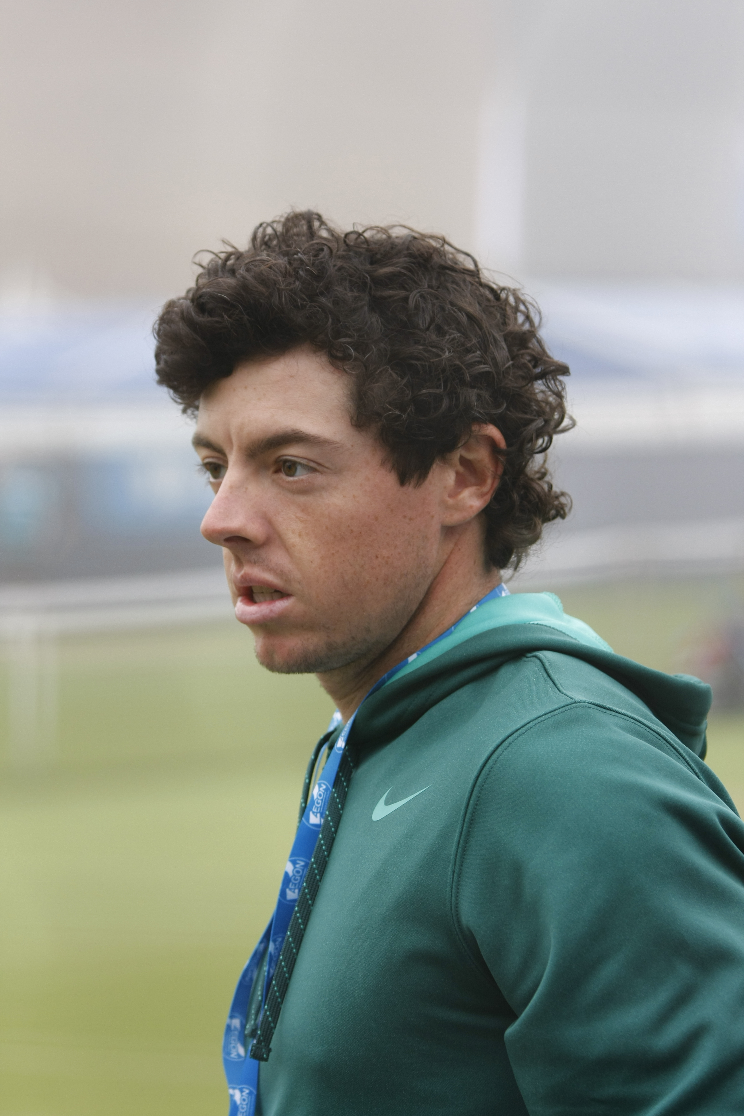 Aegon International Tennis Eastbourne June 2013